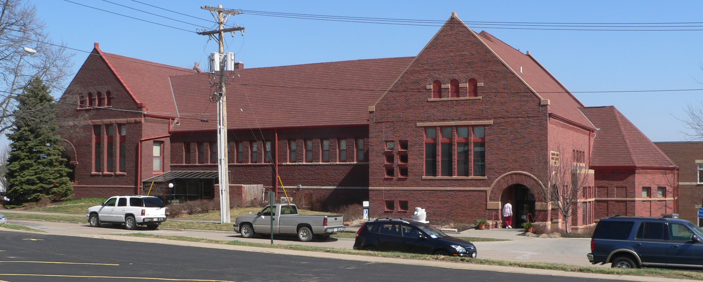 Morton-James Public Library, located at 923 First Corso in Nebraska City, Nebraska; seen from the southwest, across 10th Street.